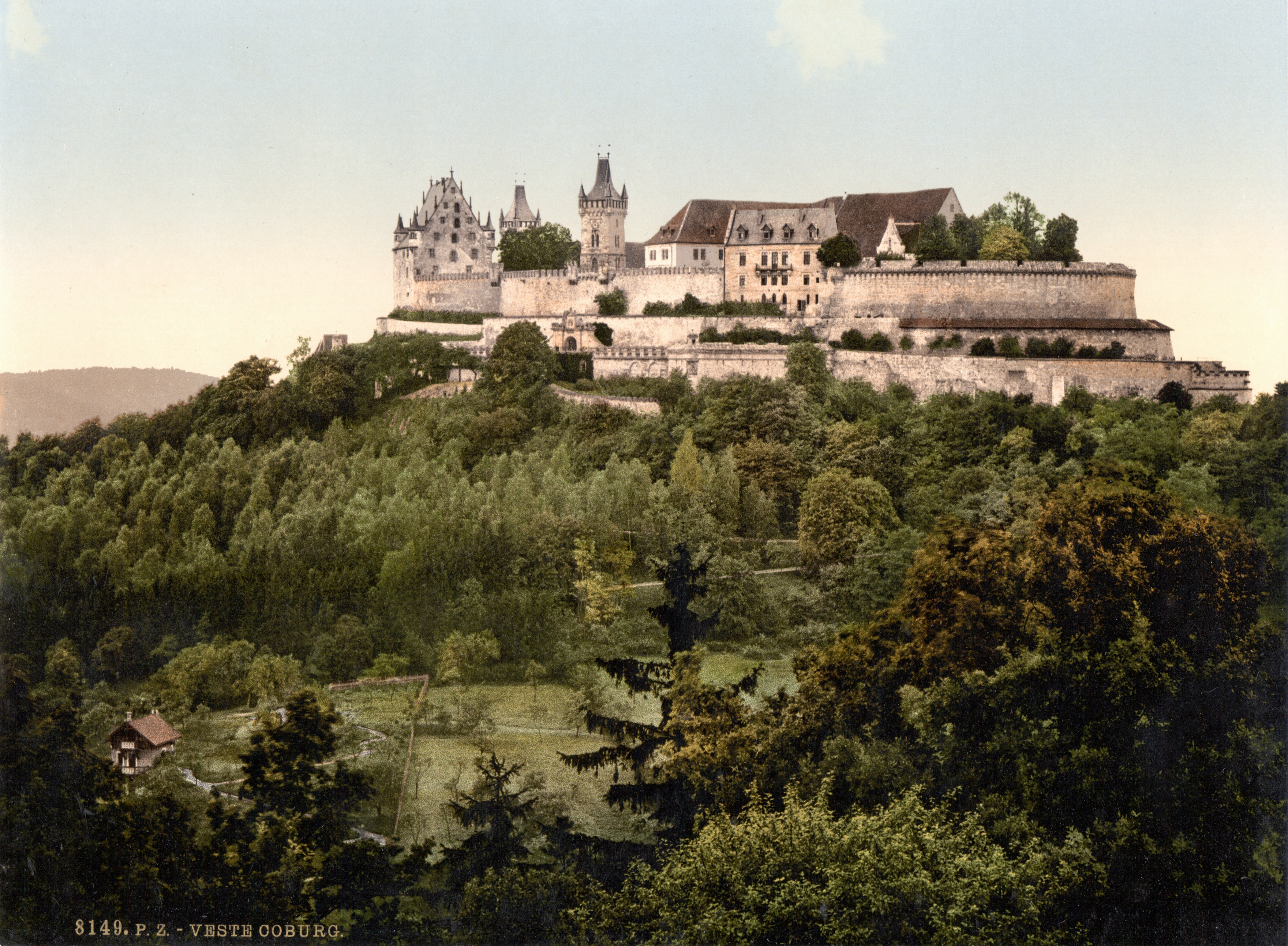 The Veste Coburg, south-eastern aspect